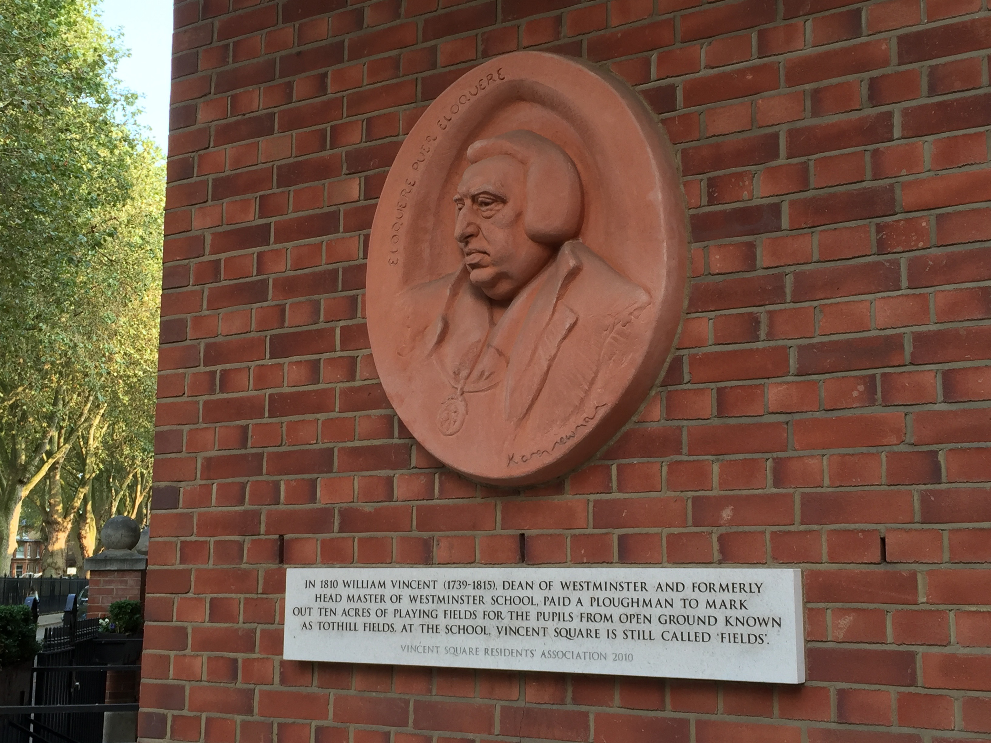 Terracotta plaque at a corner of Vincent Square, London SW1, in memory of William Vincent (1739–1815), who was Dean of Westminster 1802–15